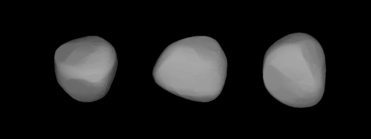 A three-dimensional model of 218 Bianca that was computed using light curve inversion techniques.